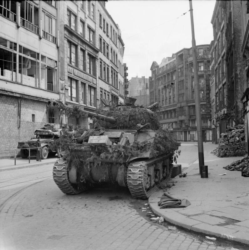 Sherman Firefly of 7th Armoured Division in Hamburg (Großer Burstah corner to Rödingsmarkt with Hindenburghaus in the background)